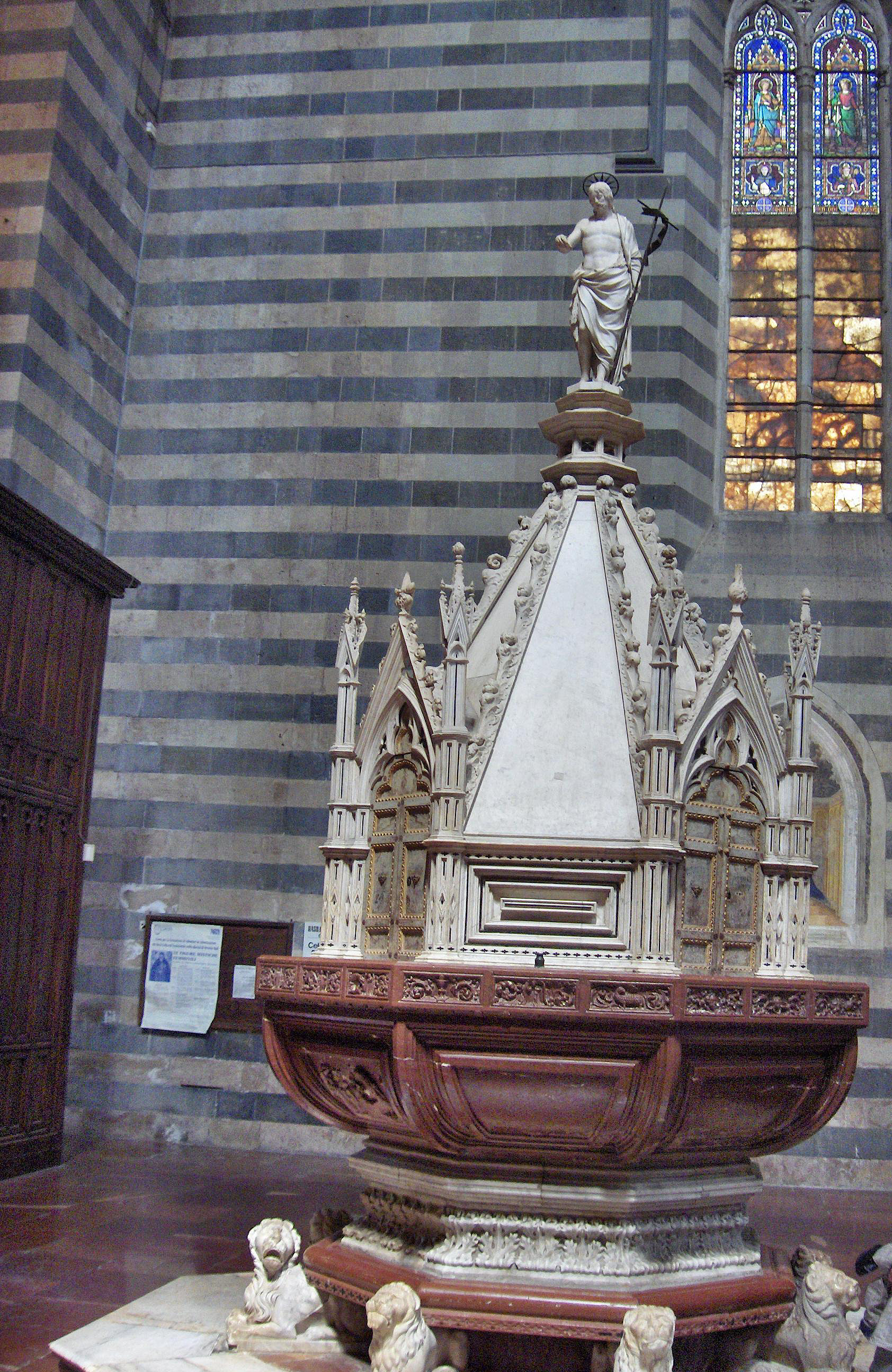 Baptismal font, Cathedral of Orvieto, Italy